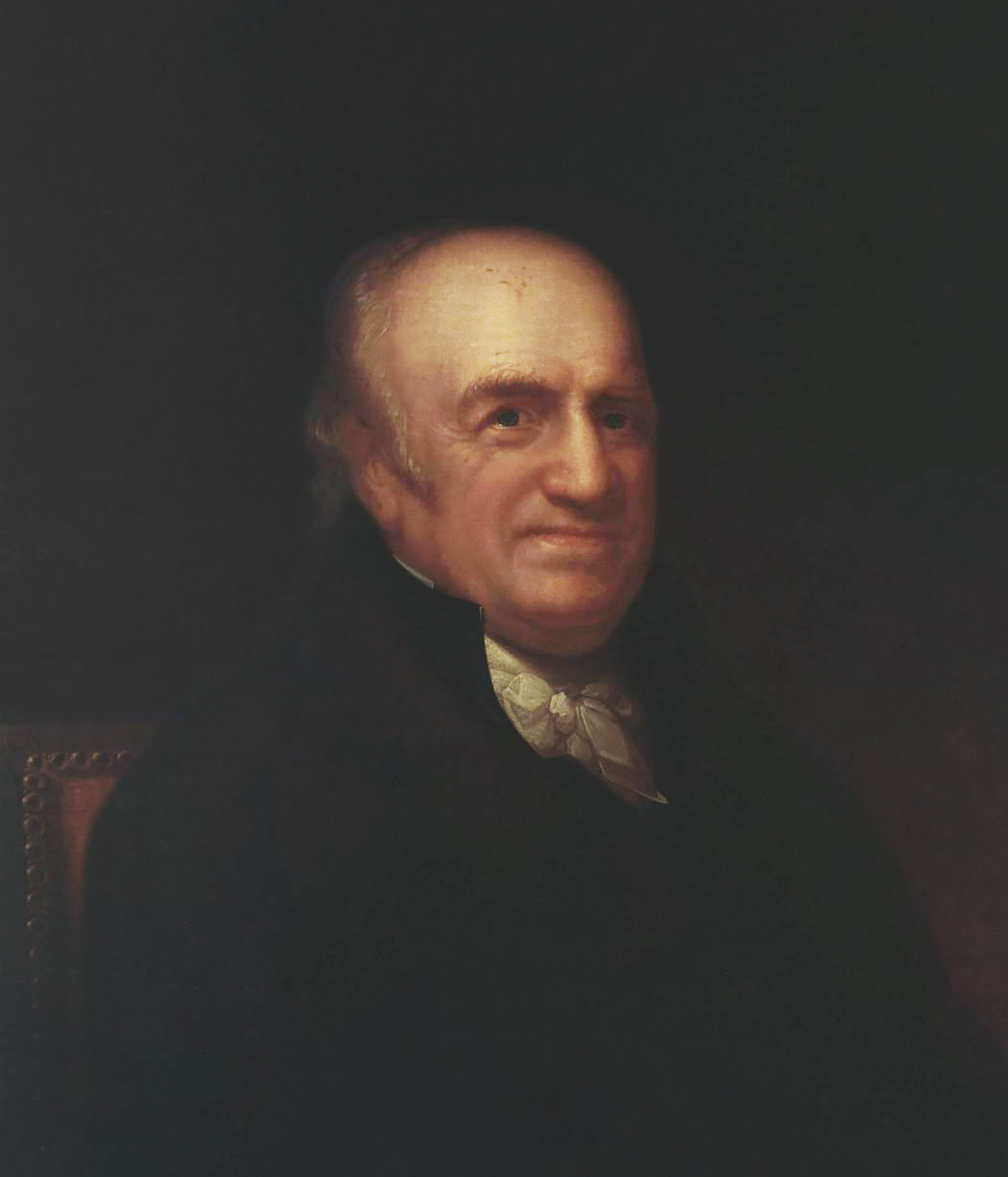 Pierre Samuel Du Pont de Nemours (1739-1817)